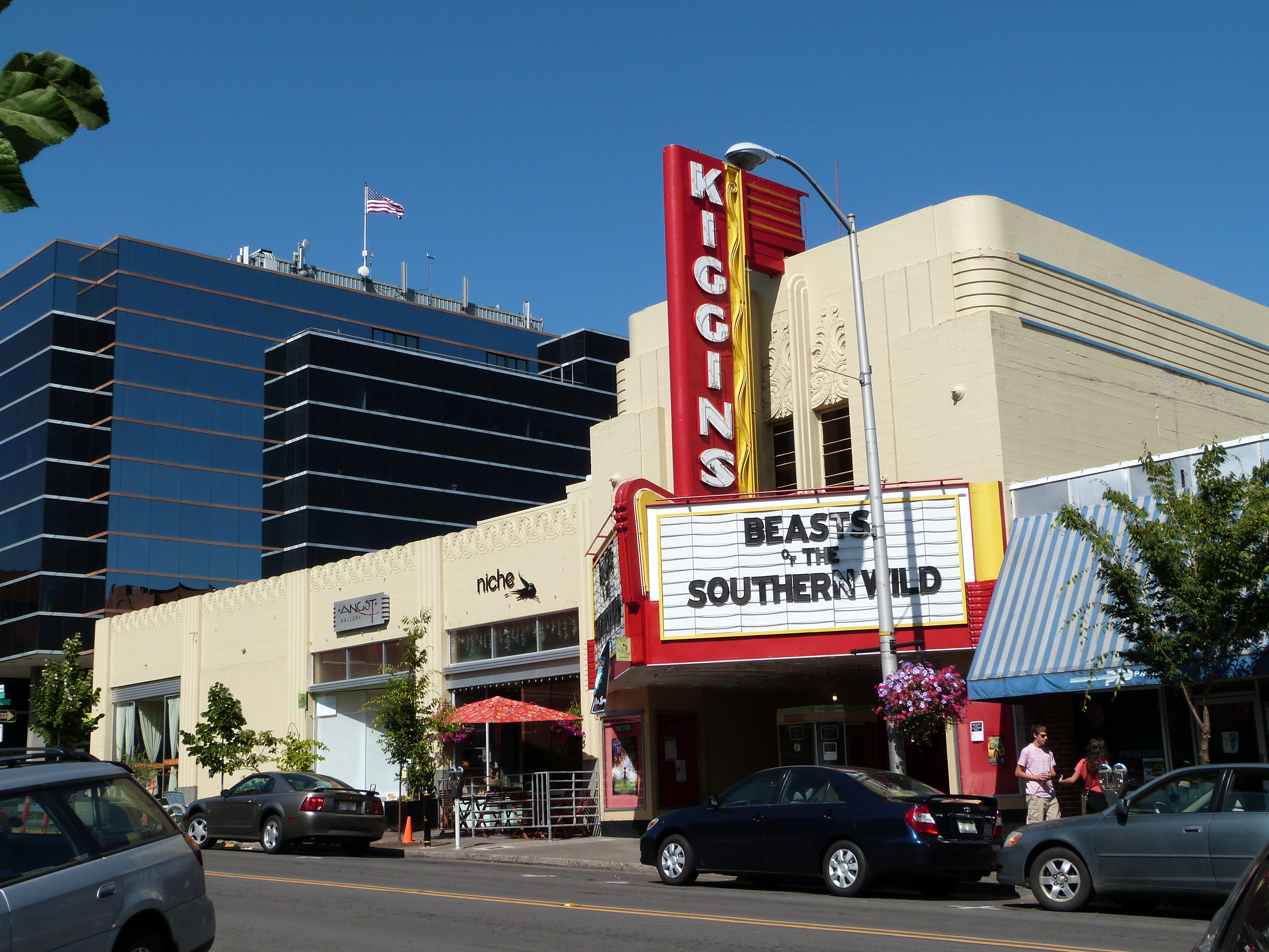 The historic Kiggins Theater, located at 1011 Main Street in Vancouver, Washington state, United States, is listed on the US National Register of Historic Places.